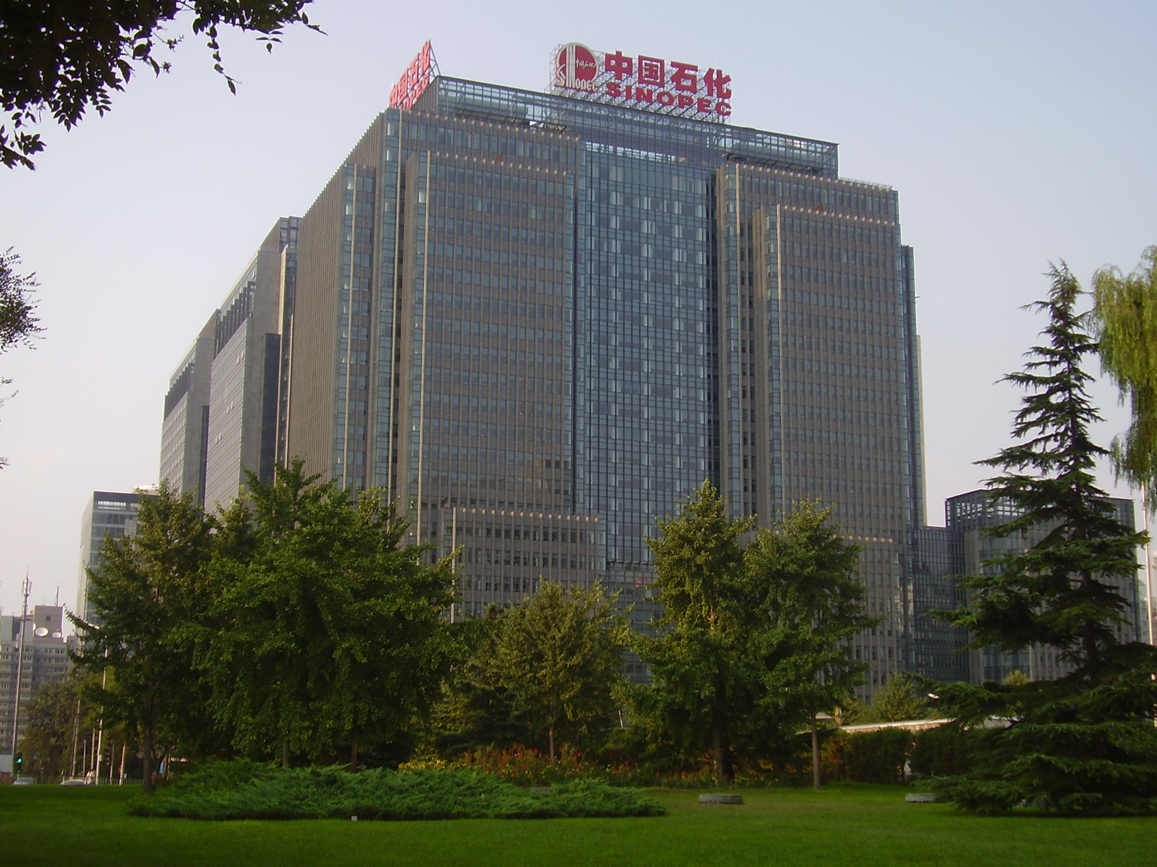 Sinopec headquarters - 22 Chaoyangmen North Street, Chaoyang District,Beijing, China